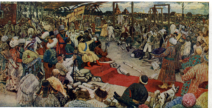 Gorelov G.N.